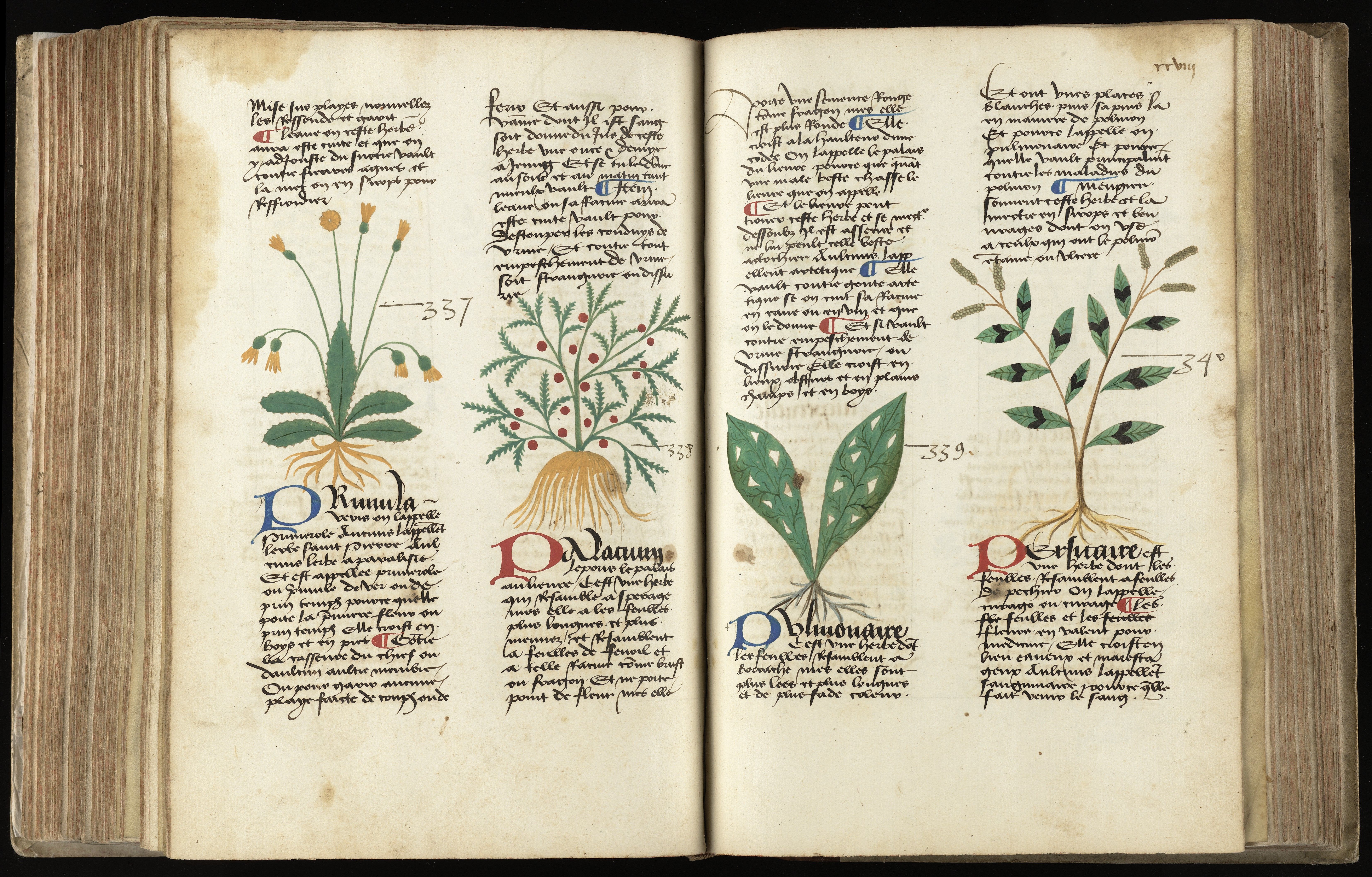 Western Manuscript 626 Platearius, Circa instans seu de medicamentis simplicibus ...; circa 1480 to 1500 Archives & Manuscripts Keywords: Medicine; Herbals